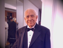 Enrique Jaso Mendoza